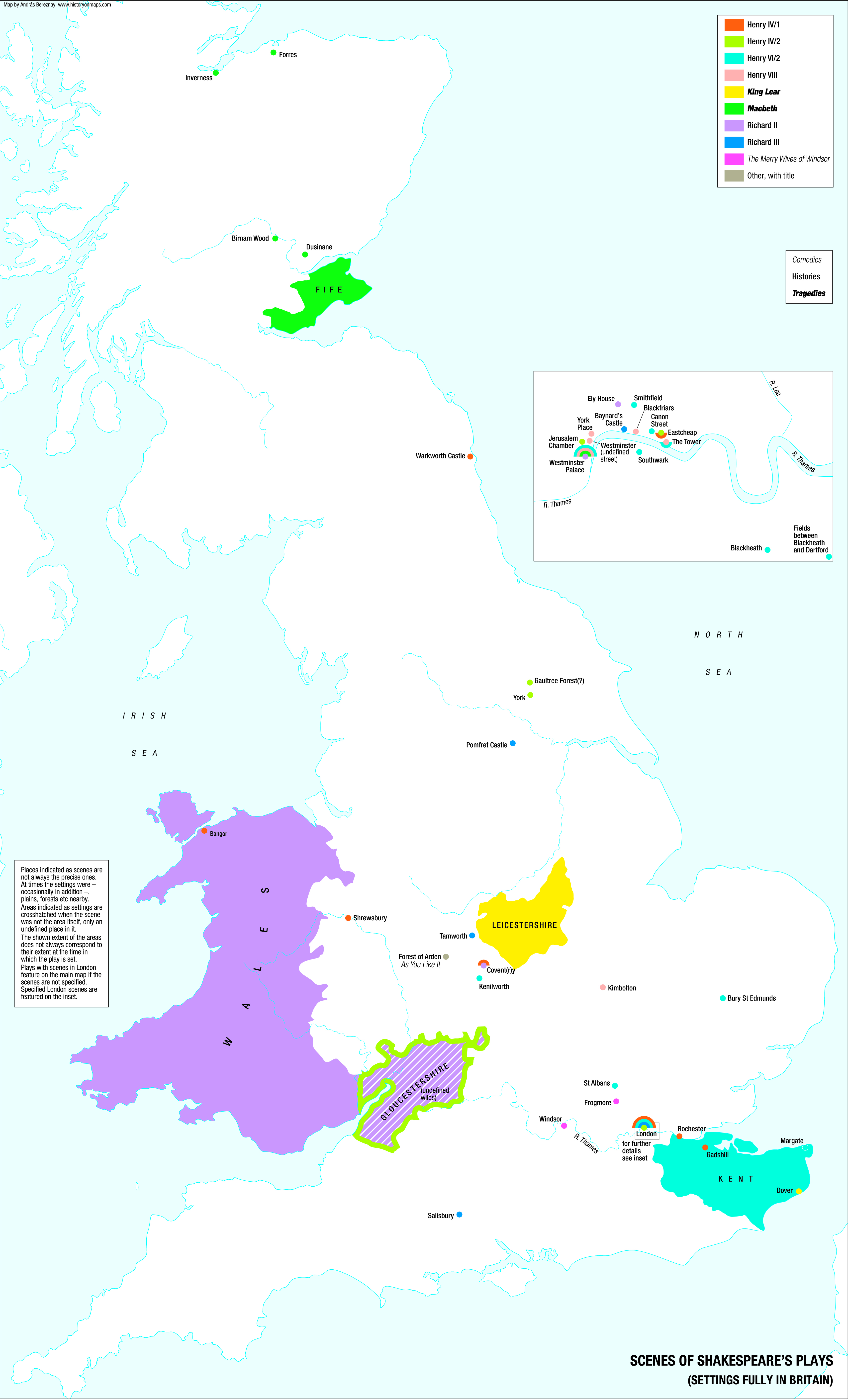 map of Shakespeare's plays with scenes in Britain